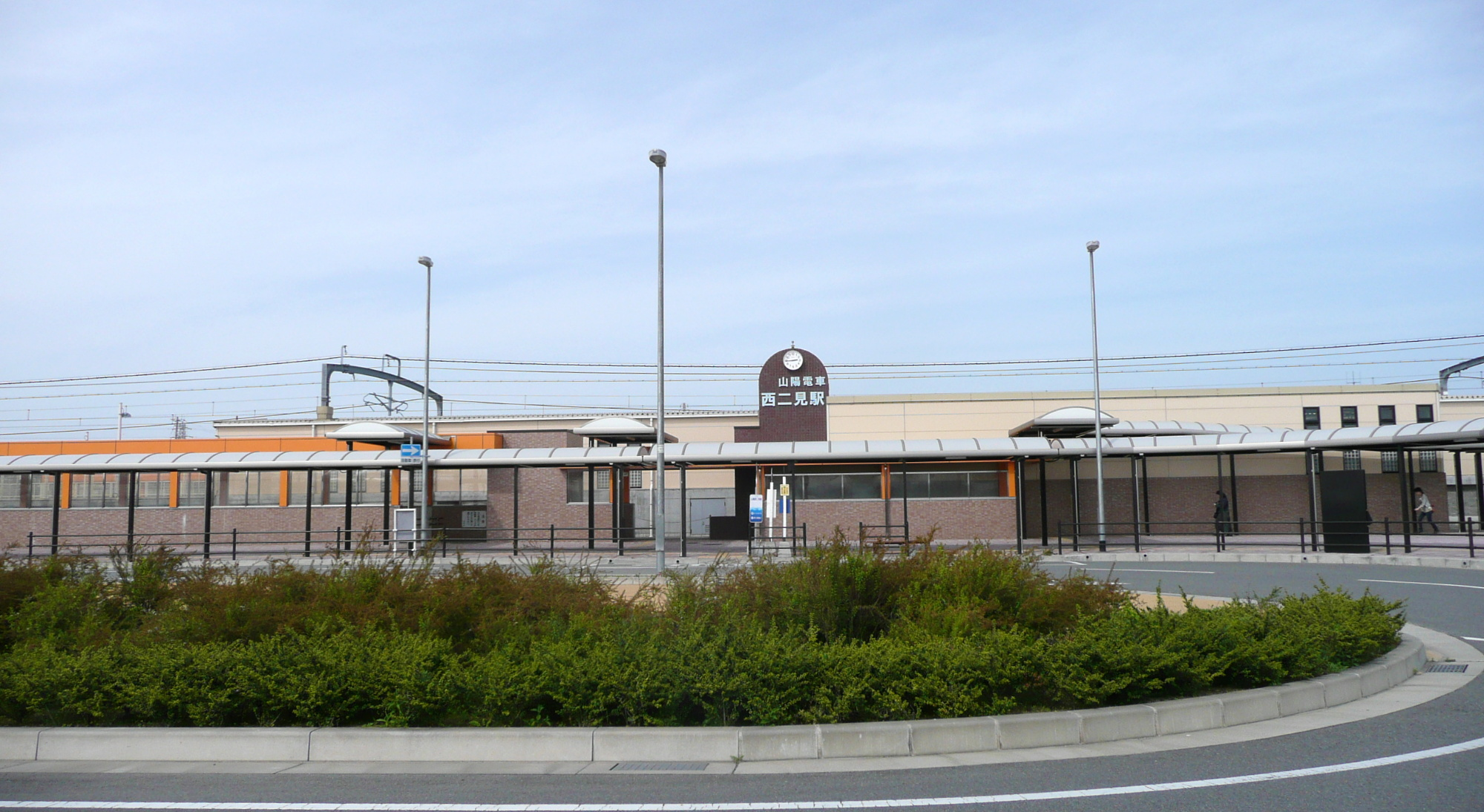 Sanyo Electric Railway,Nishi-Futami Station south entrance.